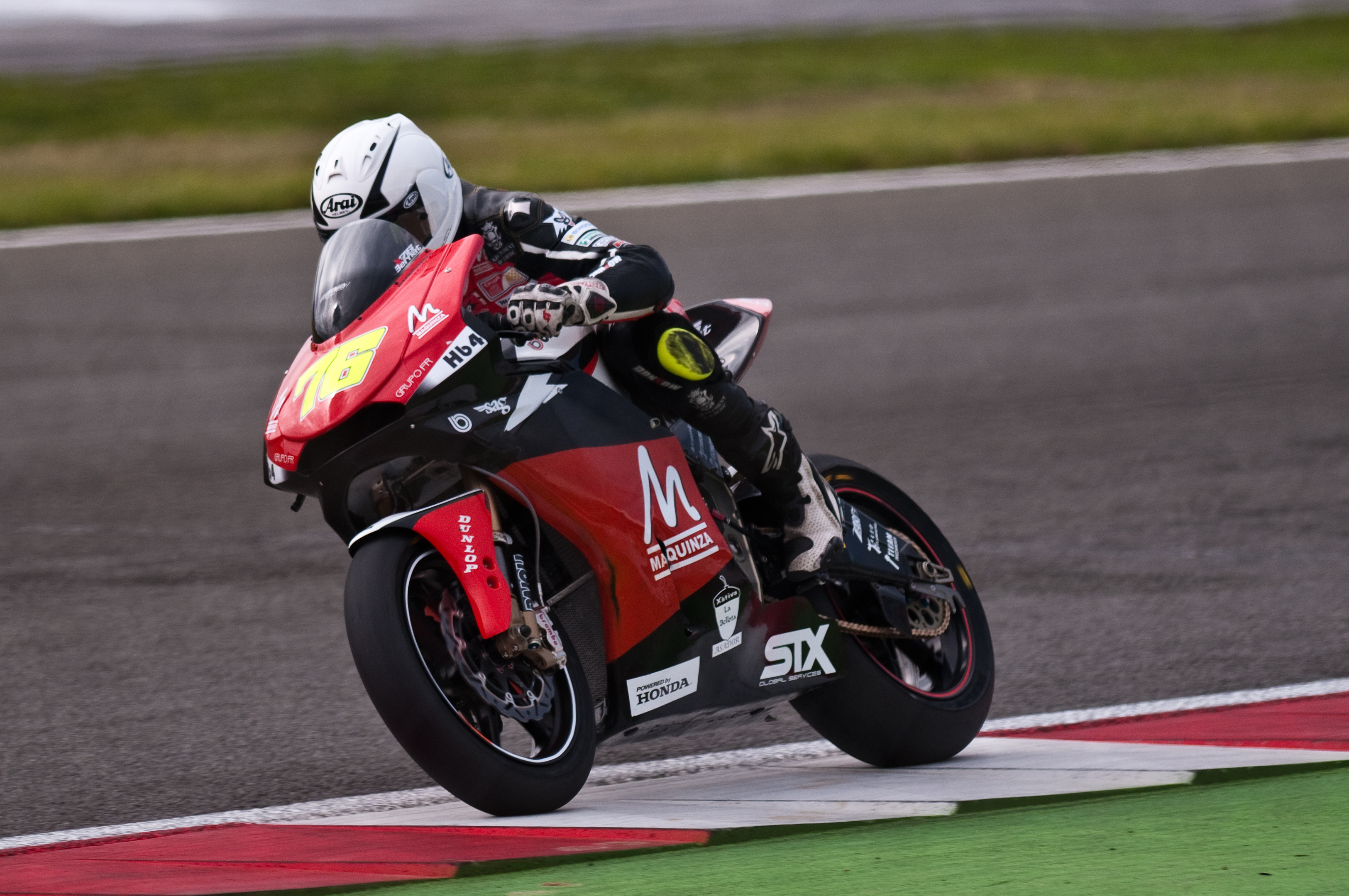 Bernat Martinez on Bimota HB4